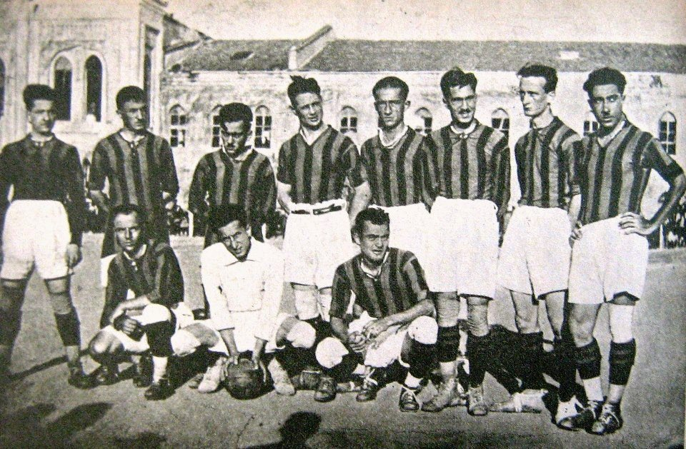 Fenerbahçe football team in 1922-23 season. From left to right: Back row - Bedri (Gürsoy), Zeki Rıza (Sporel), Ömer (Tanyeri), İsmet (Uluğ), Sabih (Arca), Cafer (Çağatay), Fâhir (Yeniçay), Kadri (Göktulga), Fâhir (Yeniçay) Front row - Ragıp (Mağden), Şekip (Kulaksızoğlu), Alaeddin (Baydar)